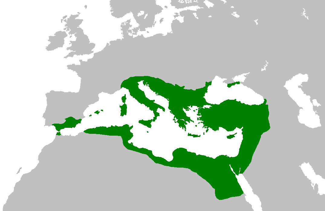 The extent of the Eastern (Byzantine) and Western Roman Empires in 550.